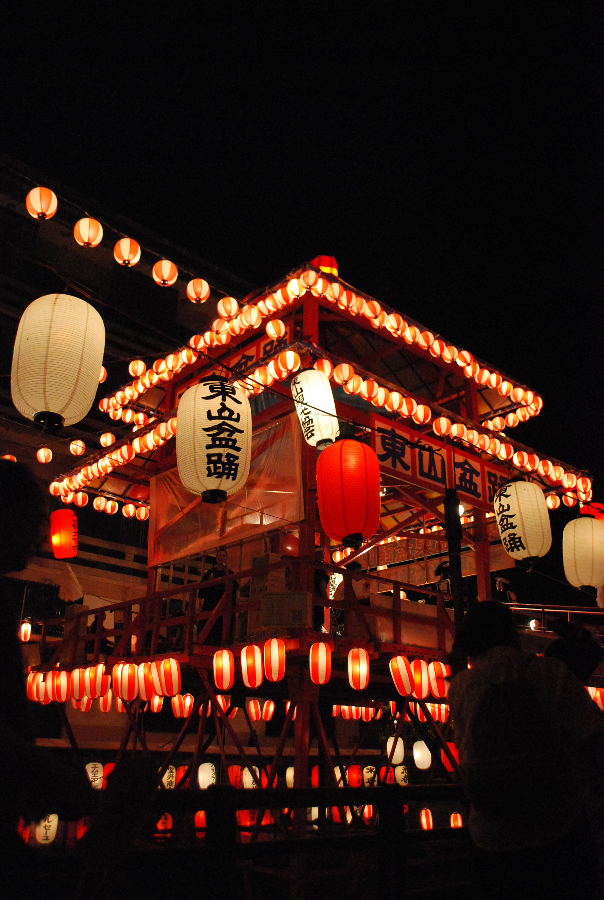 Bon-odori festval at Higashiyama Onsen.